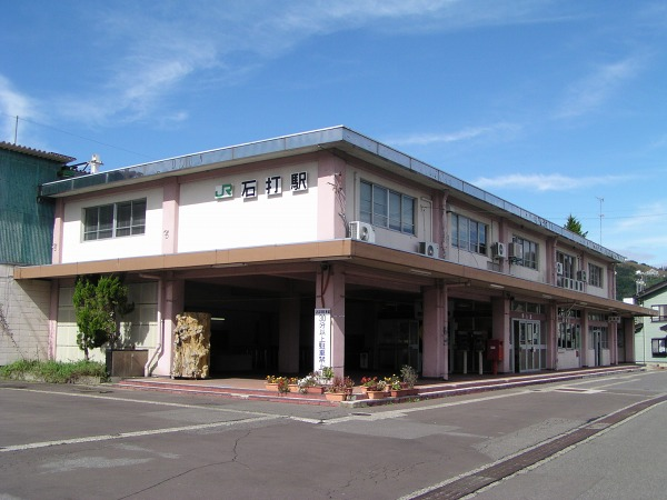 Ishiuchi Station, Minaiuonuma, Niigata, Japan